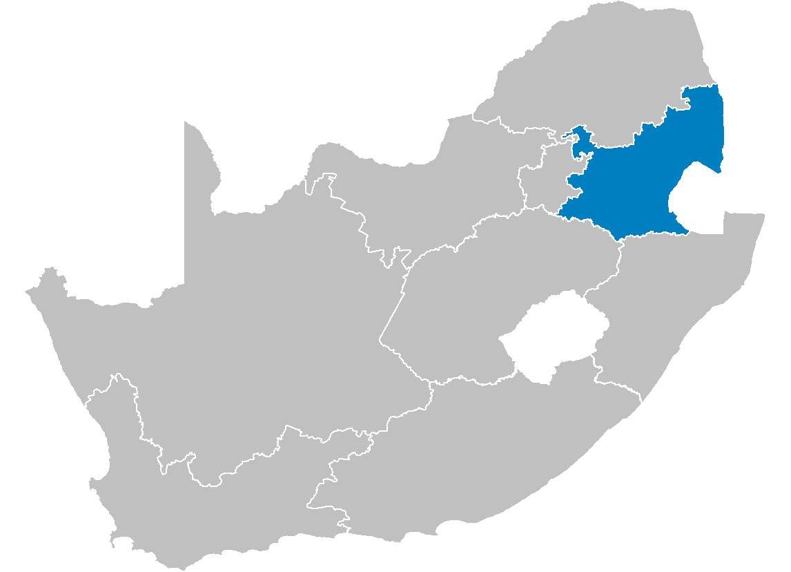 Map of South Africa showing the Mpumalanga province after the 12th amendment of the constitution in December 2005